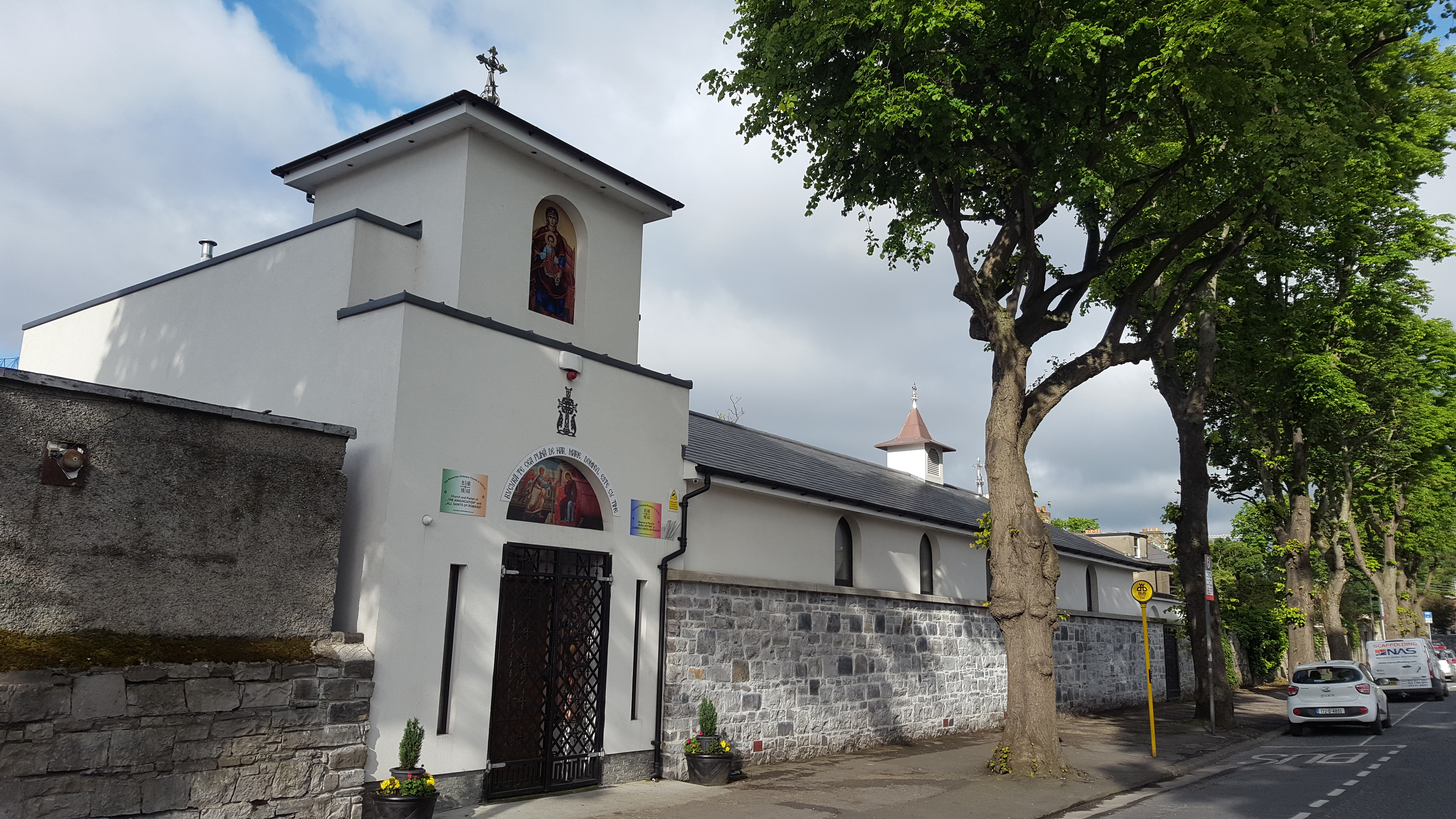 The Church of the Annunciation, number 59 Western Way, Broadstone, Dublin 7 This site previously was host to St. Dominic's Youth Club DublinBikes docking station 102 is located closeby